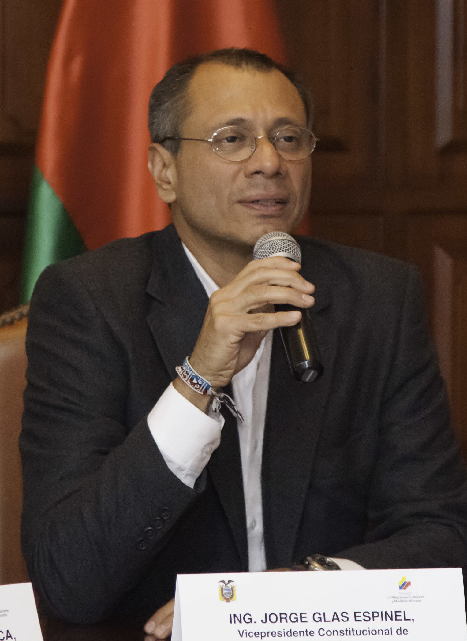 Jorge Glass Espinel. Edited version of File:Cancilleres de Ecuador y Belarús se reúnen en Quito (14281349369).jpg